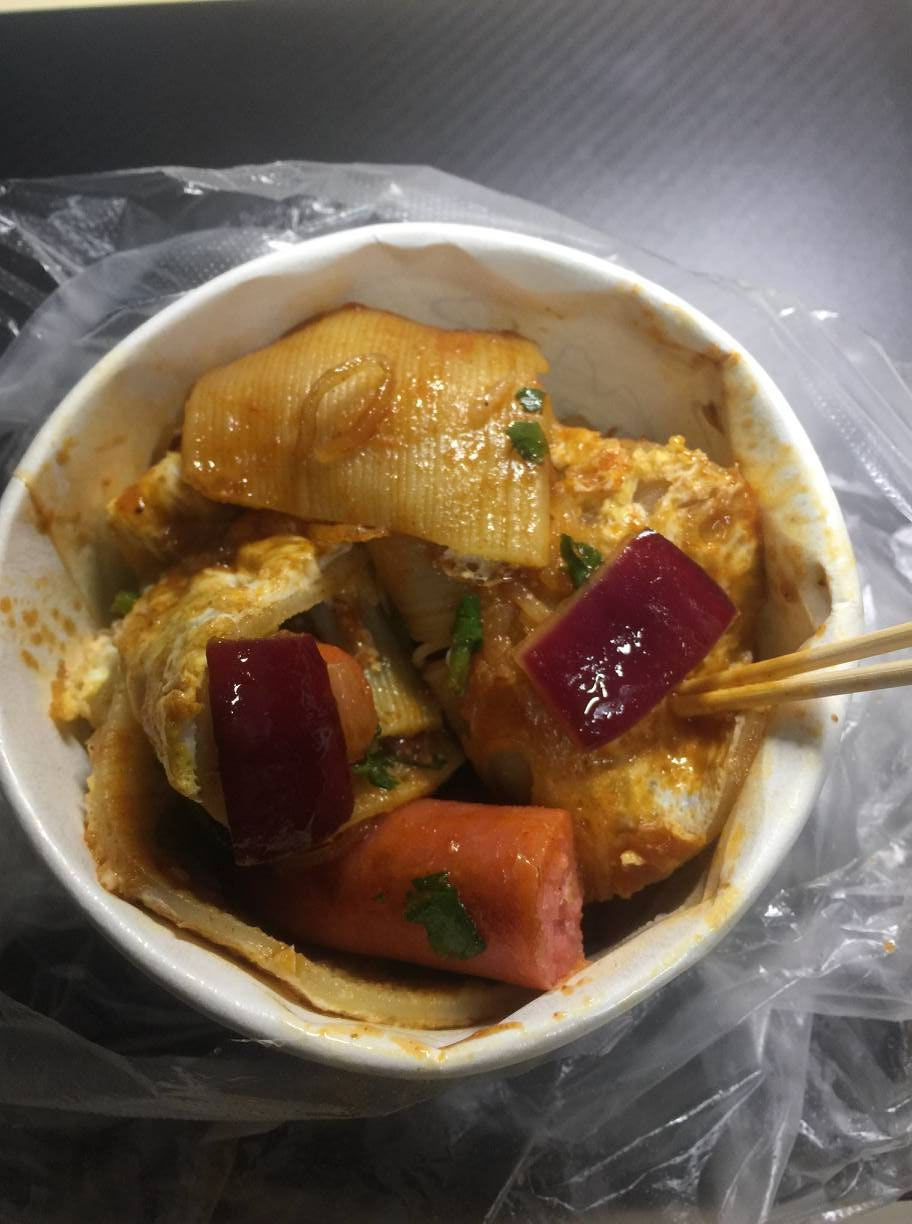 barbecue cood noodles